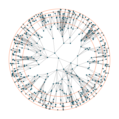 The hyperbolic graph was drawn with parameters N=500, alpha=1 and R=5. Edges were inserted between nodes u and v if the distance is smaller than 0.3 * R.